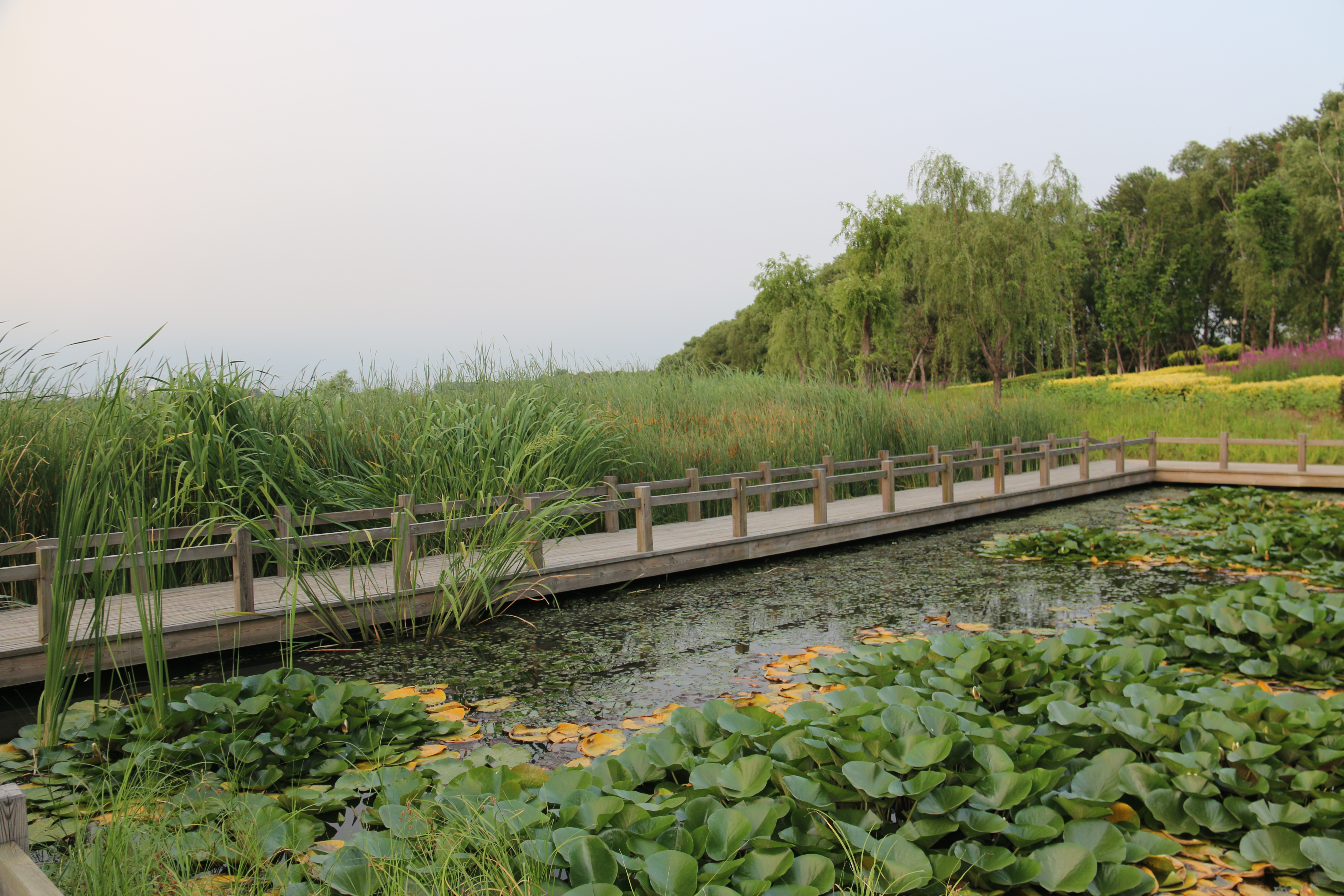 see the wikipedia article for detail